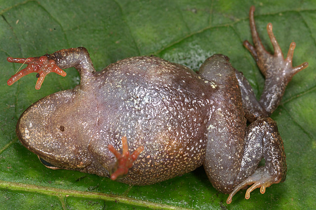 Bryophryne zonalis